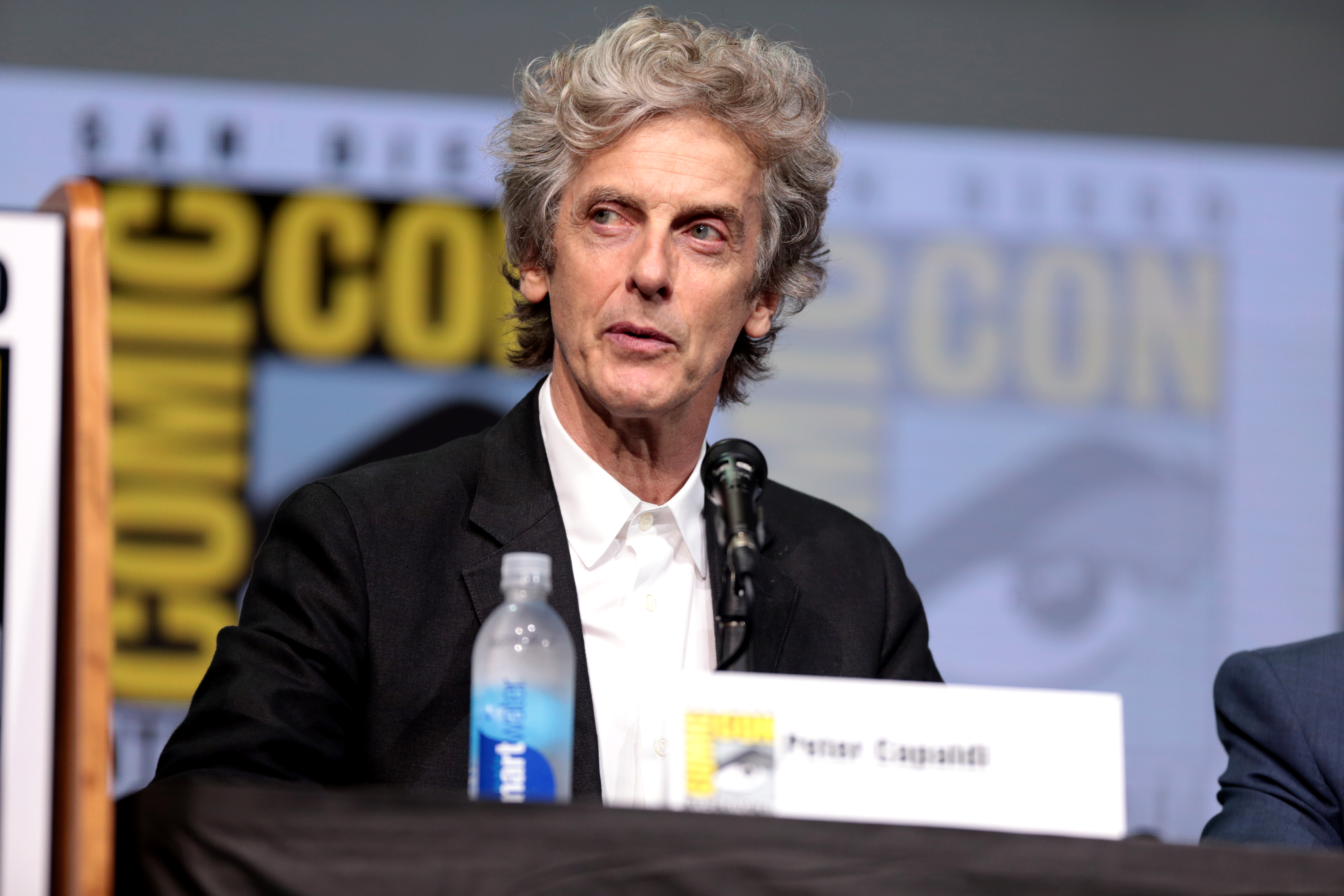 Peter Capaldi speaking at the 2017 San Diego Comic Con International, for "Doctor Who", at the San Diego Convention Center in San Diego, California.